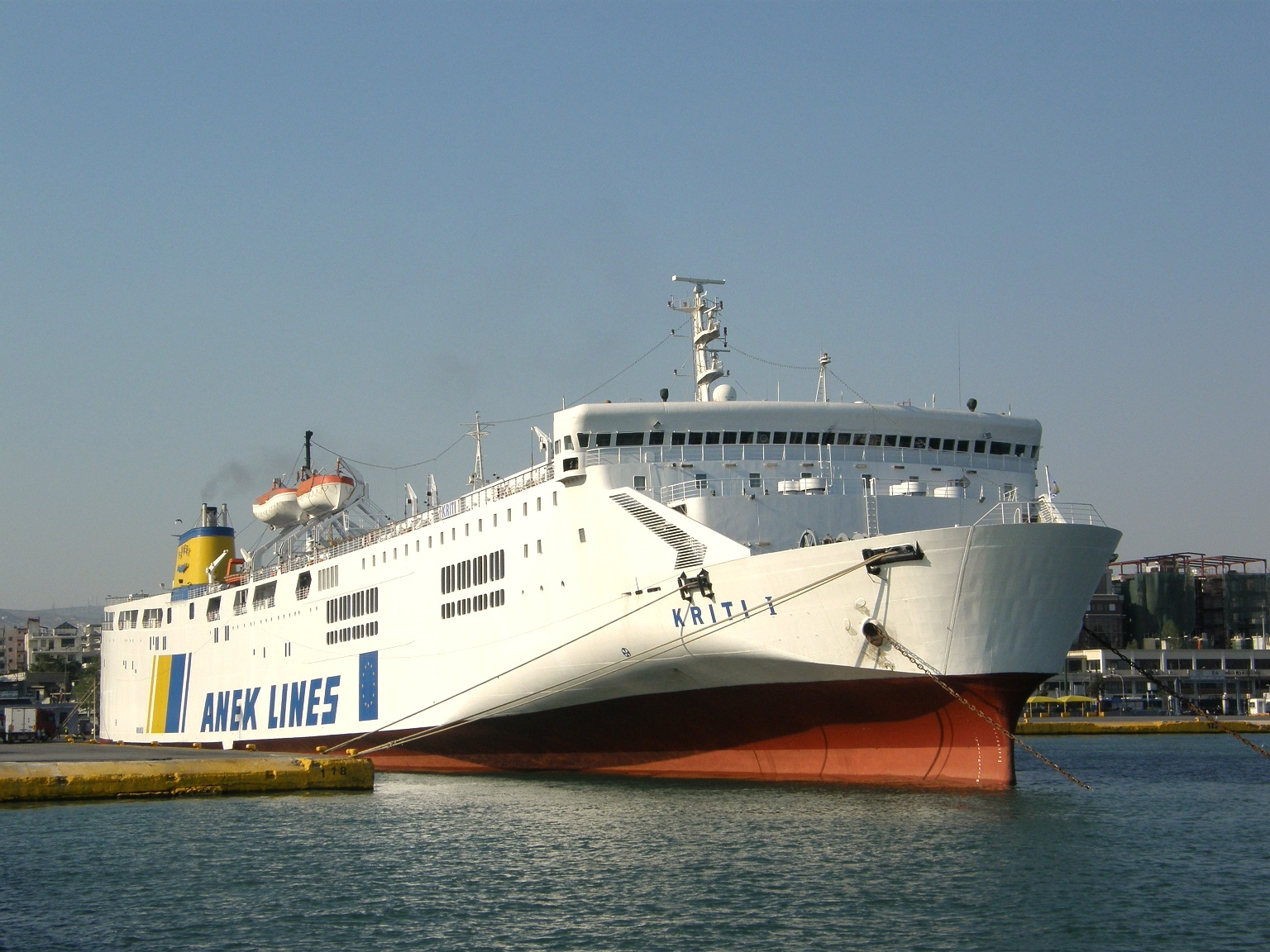 ANEK Lines F/B Kriti 1, SZRD, IMO 7814046, in Piraeus Harbor.